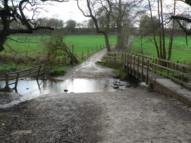 Ford on Bardsey Beck by Hetchell Wood, near Bardsey, West Yorkshire. The Roman Road comes between Hetchell Wood and Pompocali, and crosses Bardsey Beck on its way west.